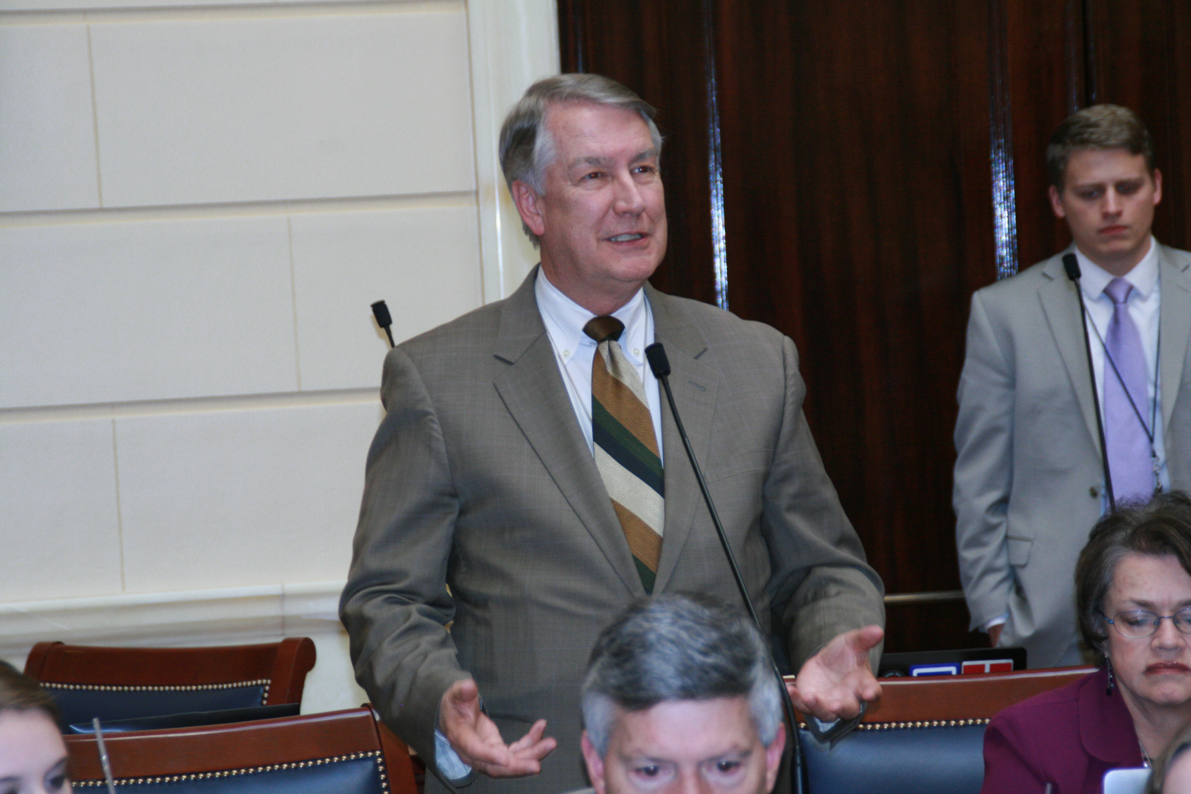 Senator John Valentine